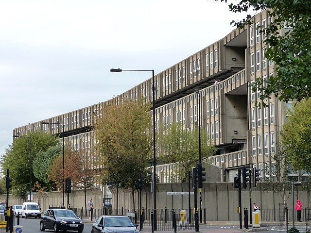 Robin Hood Gardens, Cotton Street The west side of the west block. Robin Hood Gardens is one of London's most notorious 1960s housing estates which is loathed by some but revered by others as a beacon of modern architecture. There are probably more people in the former camp than the latter. There are two blocks aligned roughly north-south with a patch of green space between them. They were designed by Alison and Peter Smithson in 1966-72, with Christopher Woodward and Ken Baker of the Greater London Council. The buildings embody the Smithsons' idea of "streets in the sky" and are an example of concrete Brutalism, with the pre-cast concrete being rough and shuttered. Pevsner comments that while being "impressively monumental" the scheme is also "inhumane" because of the high density, the narrowness of the decks and its proximity to busy roads on two sides. Tower Hamlets Council plan to demolish the buildings and redevelop the site. A campaign by the Twentieth Century Society and others to halt this by applying for listed building status in 2008 was unsuccessful.